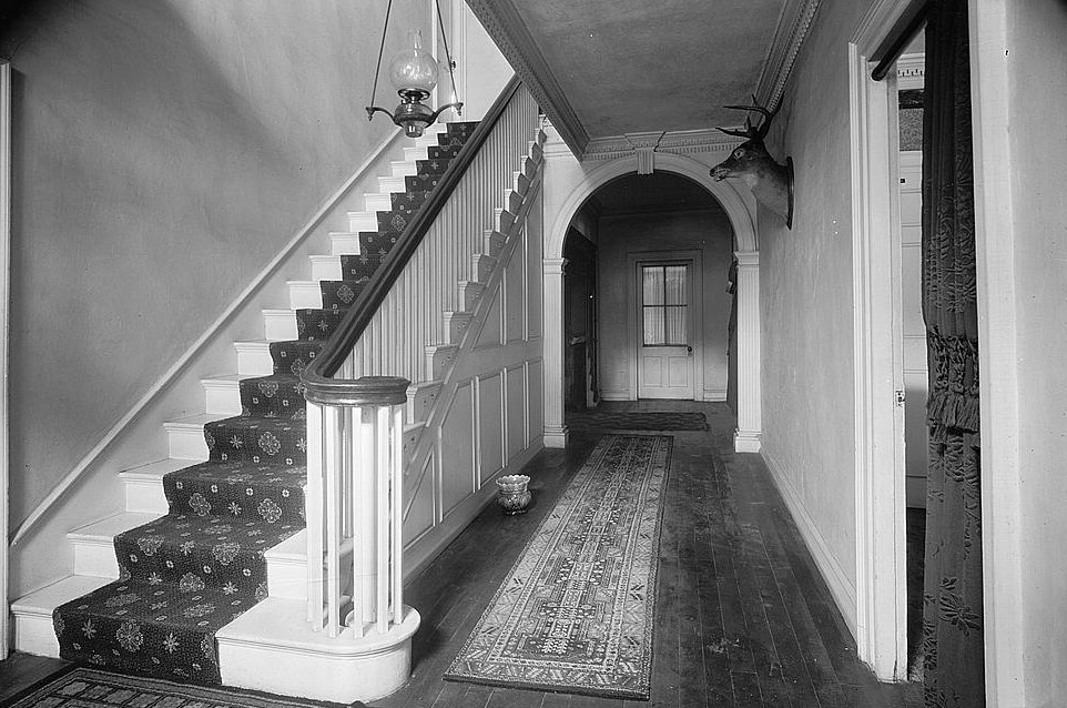 Elisha Payne House — Staircase and hallway, Canterbury, Windham County, Connecticut. 1940 photo from the Historic American Buildings Survey of Connecticut. HABS CONN,8-CANBU,1-4 — (cropped). This file comes from the Historic American Buildings Survey (HABS), Historic American Engineering Record (HAER) or Historic American Landscapes Survey (HALS). These are programs of the National Park Service established for the purpose of documenting historic places. Records consist of measured drawings, archival photographs, and written reports. When reusing please credit: Library of Congress, Prints & Photographs Division, CT-163 This tag does not indicate the copyright status of the attached work. A normal copyright tag is still required. See Commons:Licensing for more information. English | +/− This work is in the public domain in the United States because it is a work prepared by an officer or employee of the United States Government as part of that person’s official duties under the terms of Title 17, Chapter 1, Section 105 of the US Code. See Copyright. Note: This only applies to original works of the Federal Government and not to the work of any individual U.S. state, territory, commonwealth, county, municipality, or any other subdivision. This template also does not apply to postage stamp designs published by the United States Postal Service since 1978. (See 206.02(b) of Compendium II: Copyright Office Practices). It also does not apply to certain US coins; see The US Mint Terms of Use. This file has been identified as being free of known restrictions under copyright law, including all related and neighboring rights.